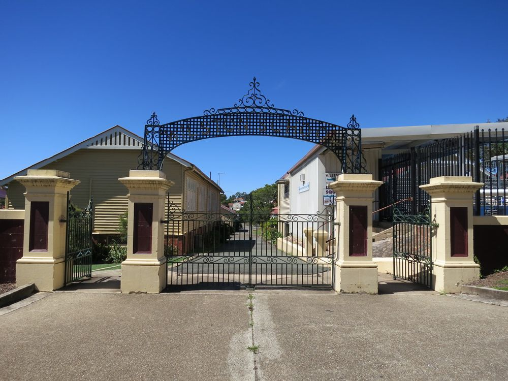 Wilston State School Thomas Street Gates (2015)